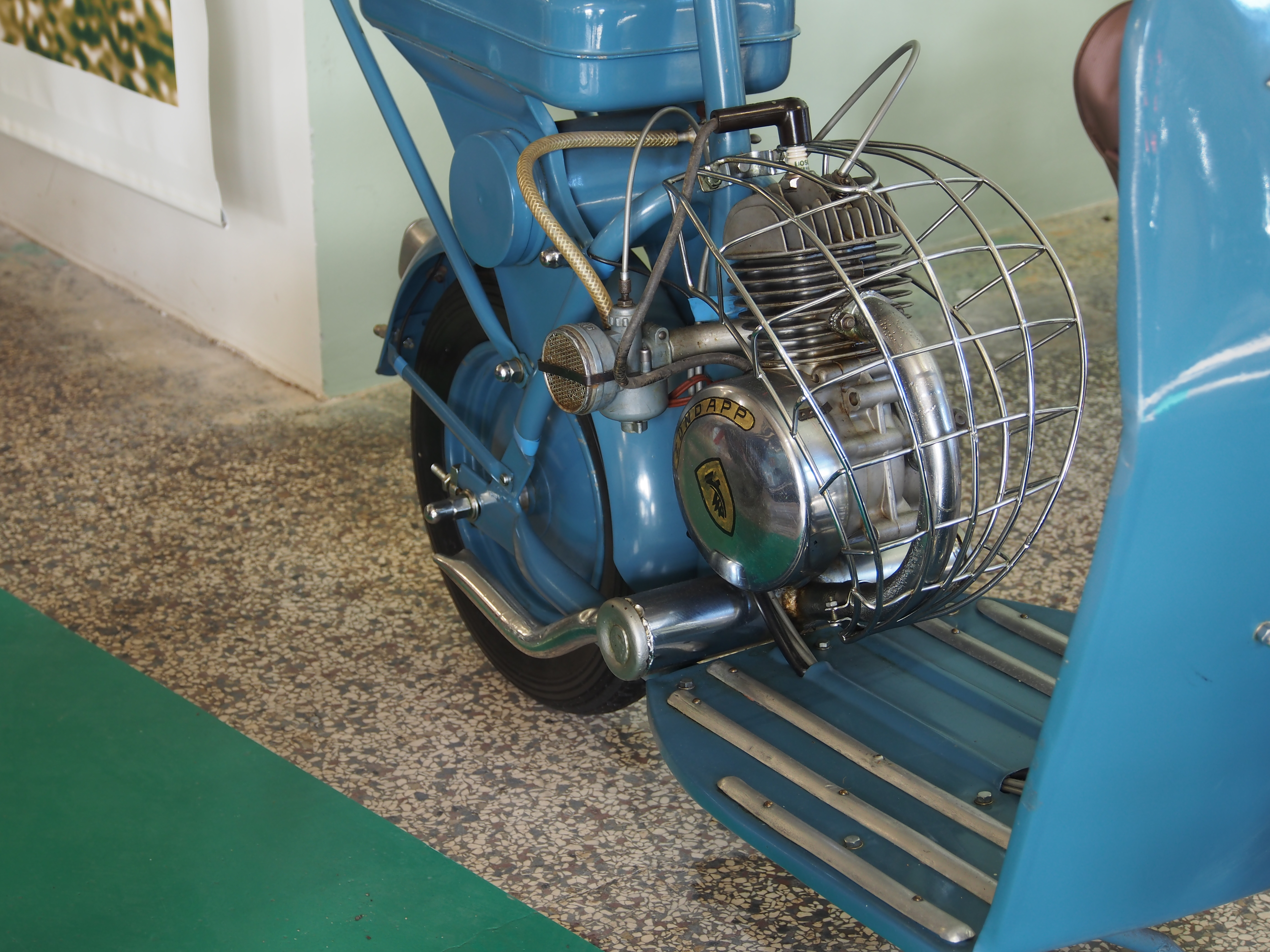 Photographed in the museum Auto & Uhrenwelt Schramberg, Germany.